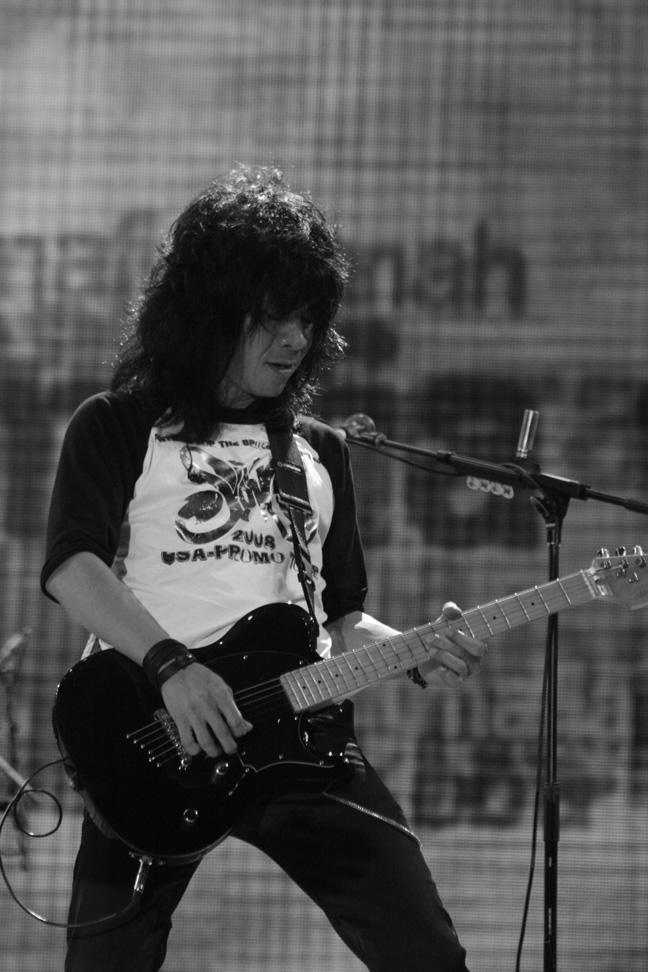 Indonesian guitarist Abdee Negara on the 25th anniversary of Slank